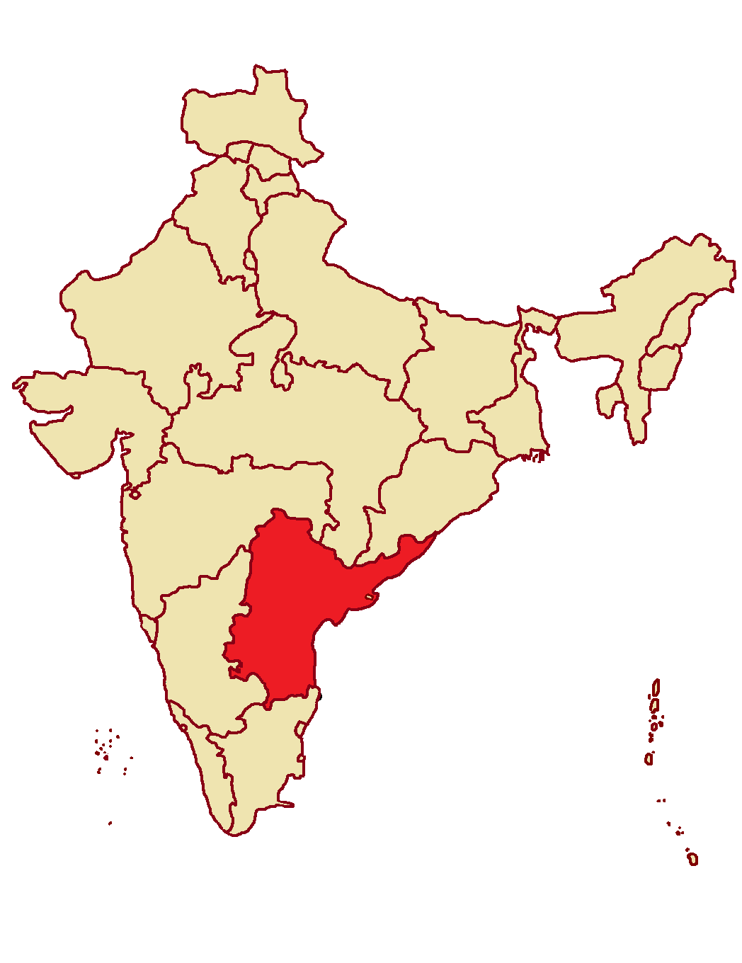 States and Union Territories of India, as of 1964-1965, i.e. between the creation of the state of Nagaland in 1963 and the Punjab Reorganization Act, 1966. Map does not include territories claimed by India but controlled by other countries. Borders not necessarily to scale. Based on File:States_of_India_(1964).png